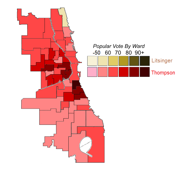 Results of the 1927 Chicago Mayoral Republican primary, fought between William Hale Thompson, Edward R. Litsinger, and Eugene McCaffrey. Thompson would win the primary and the general election, becoming as of 2018 the last Republican mayor of Chicago. Data is courtesy of canvassing sheet aperture cards and the Chicago Tribune.